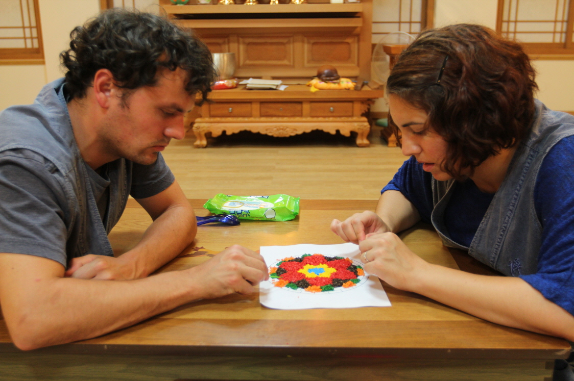 InternationalSeonCenter_3